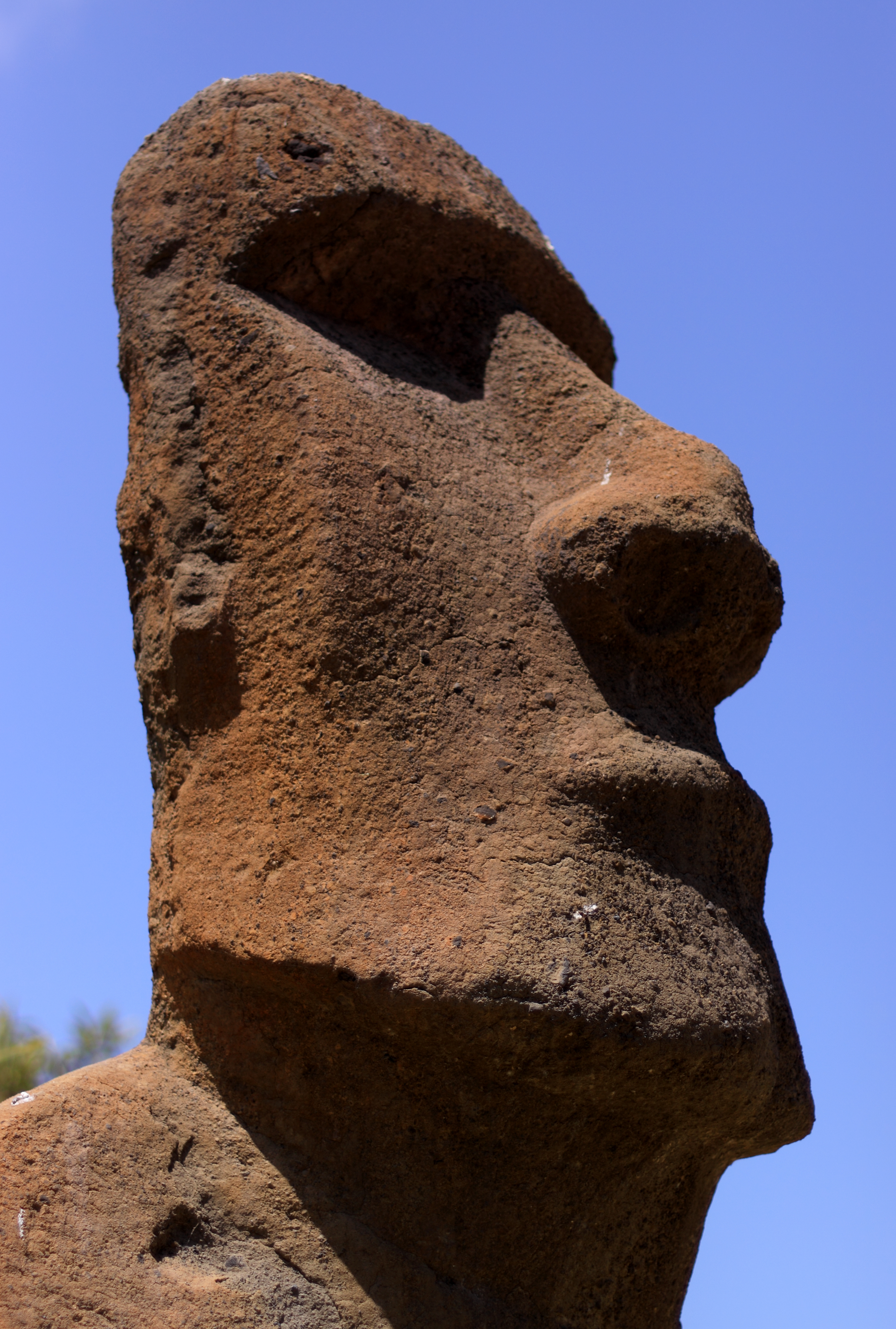 Please, have this description accessible to all by translating it in different languages.